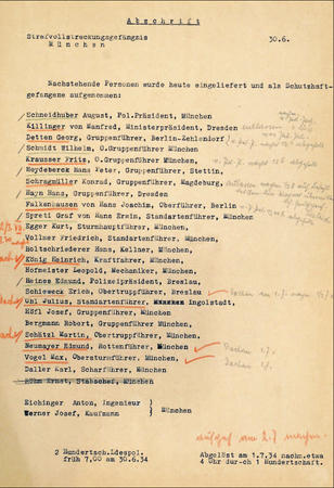 List of people arrested during the purge by the National Socialist government known as "Röhm-Putsch" on June 30 1934 and taken to Stadelheim prison. Six people whose execution was ordered by Adolf Hitler personally, and who were shot in the evening of June 30 1934 were ticked off personally by Hitler as indicator that they were to be executed, when the list was presented to him on that day shortly after it was drawn up in the first place once the people included in it were delivered to Stadelheim prison. A number of people who were picked up from the prison and executed elsewhere on the next day were underlined in red by the prison administration.